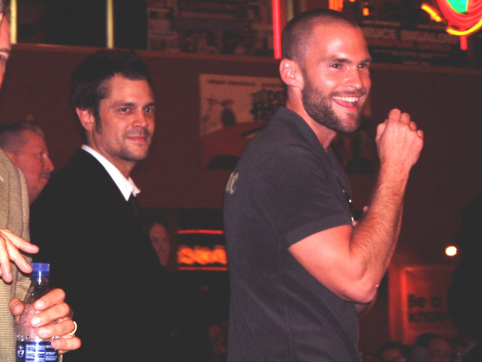 Dukes of Hazzard Premiere, 2005. Johhny Knoxville and Seann William Scott